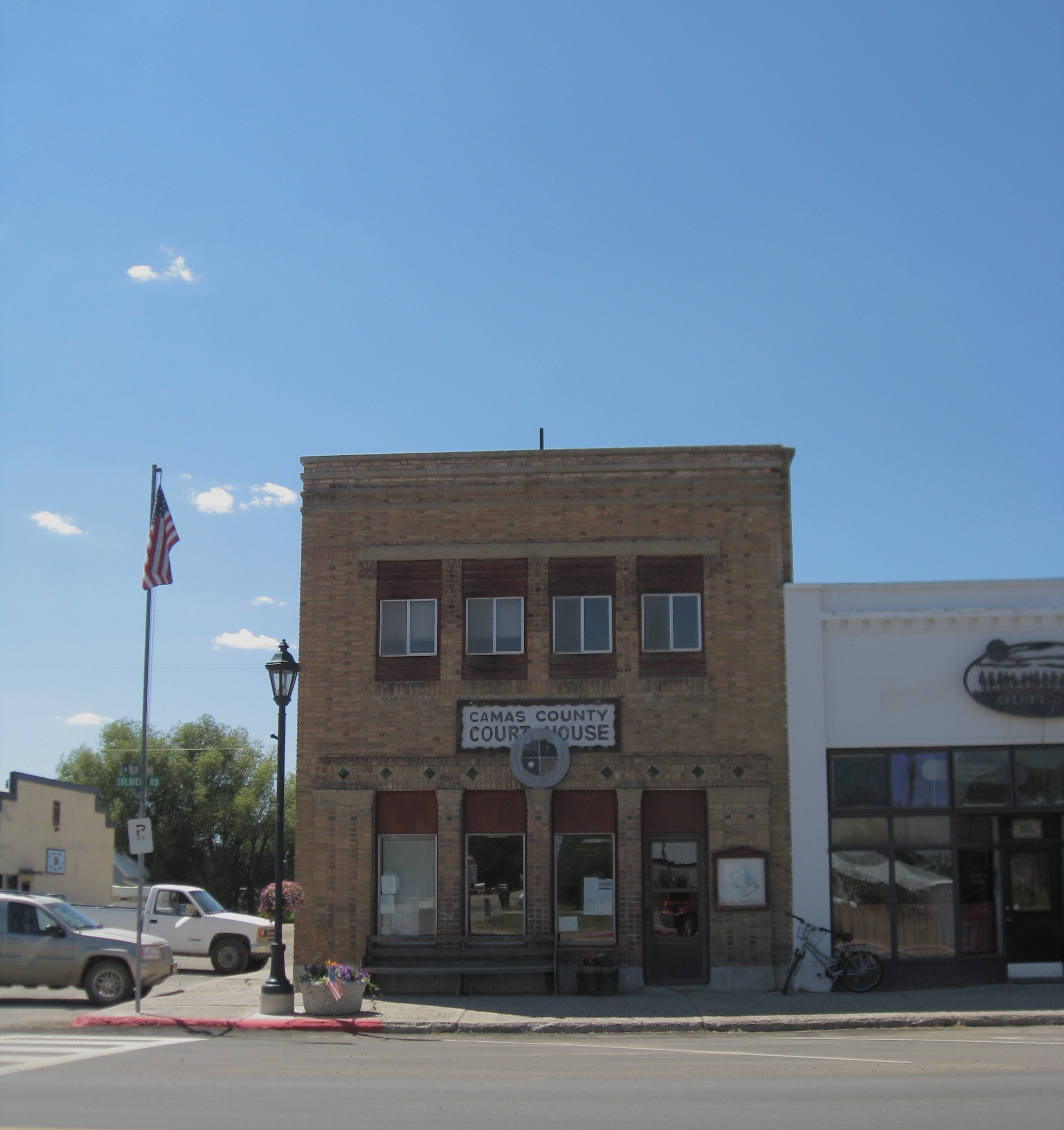 This is the Camas County Courthouse in Fairfield, Idaho, USA. I took this photo on the afternoon of August 3, 2010 from the east side of Soldier Road, facing west towards the building.